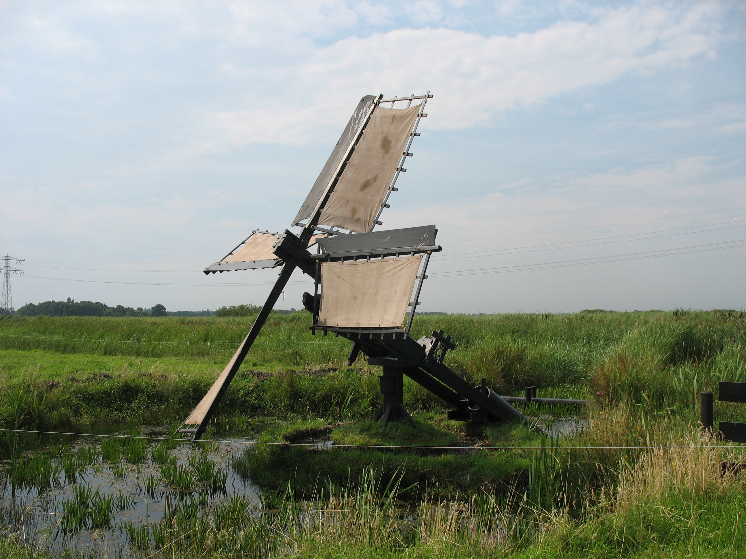 This is the Tjasker in the area of Feanwâlden